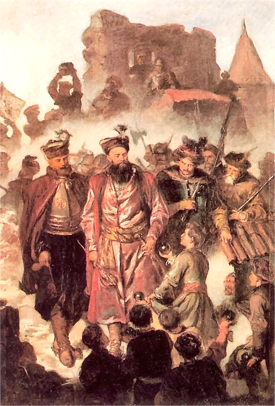 Stefan Czarniecki commander of Kraków defence against Swedes in 1655